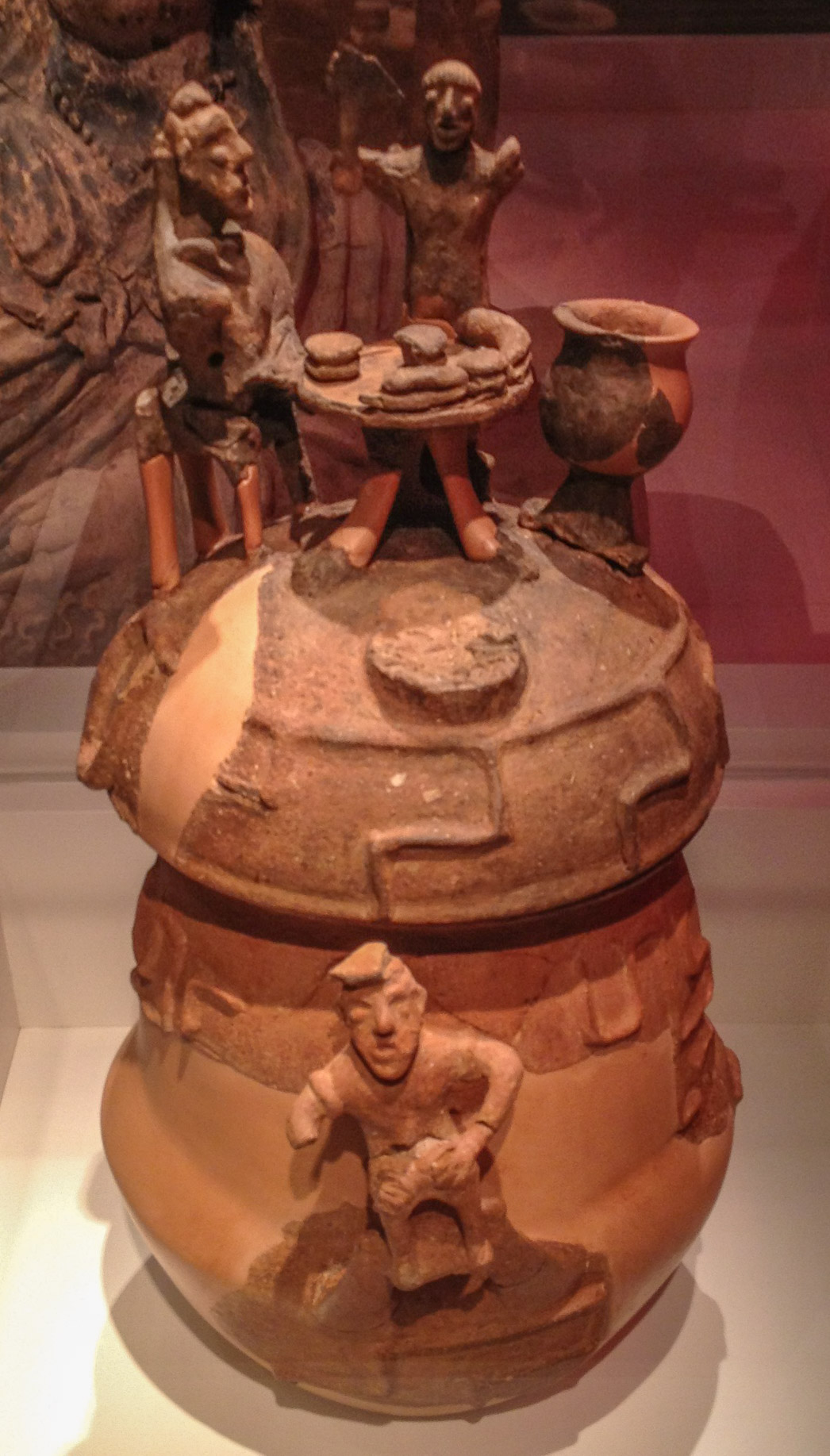 Biconical cremation urn with applied figures.